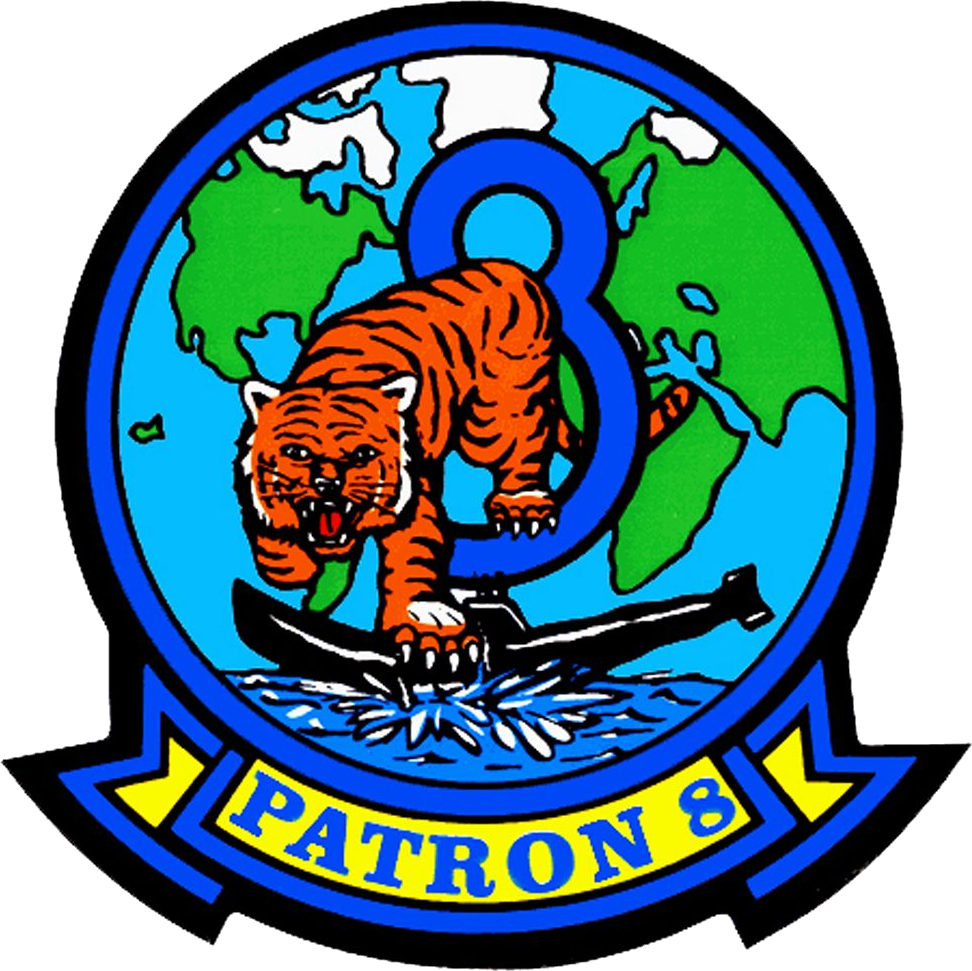 Insignia of the U.S. Navy Patrol Squadron 8 (VP-8) "Fighting Tigers", approved on 9 July 1979.